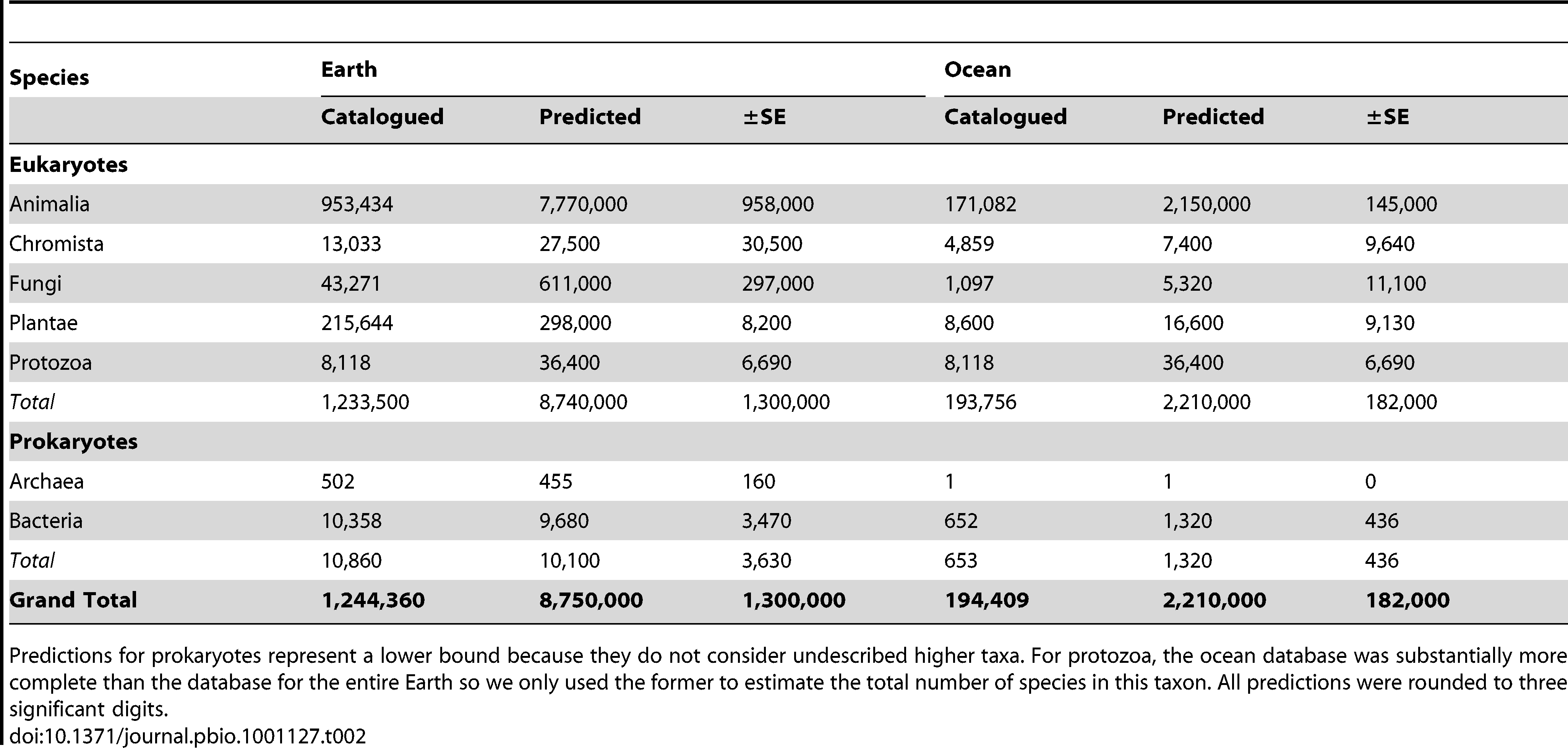 Number of documented and estimated predicted total species from Mora et al. 2011